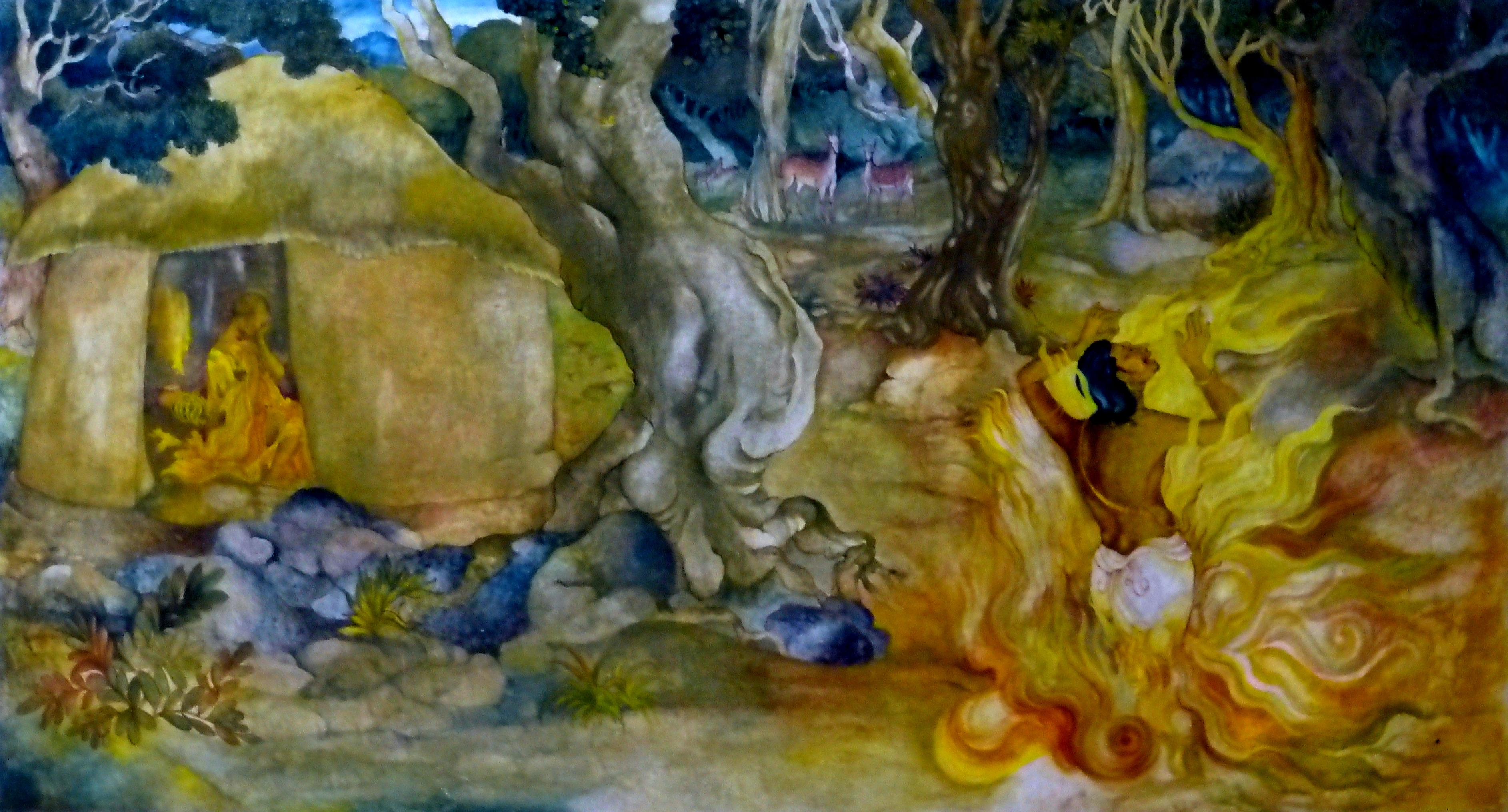 08 Rapist dies after attacking Bhikkhuni Uppalavanna, at the Nava Jetavana, Shravasti Photograph of murals in the Nava Jetavana temple, Jetavana Park, Shravasti, Uttar Pradesh, taken by Anandajoti.